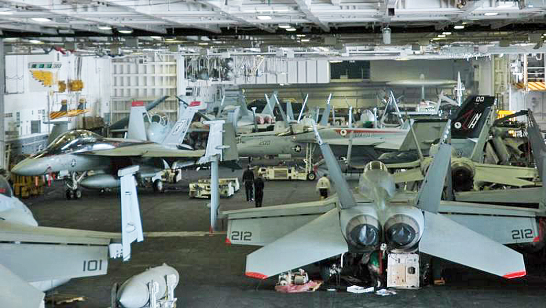 The hanger bay of the nuclear-powered aircraft carrier USS Nimitz is filled with aircraft undergoing regular maintenance from embarked squadrons as the carrier conducts maritime security operations during a scheduled deployment. Taken at sea in the East China Sea.